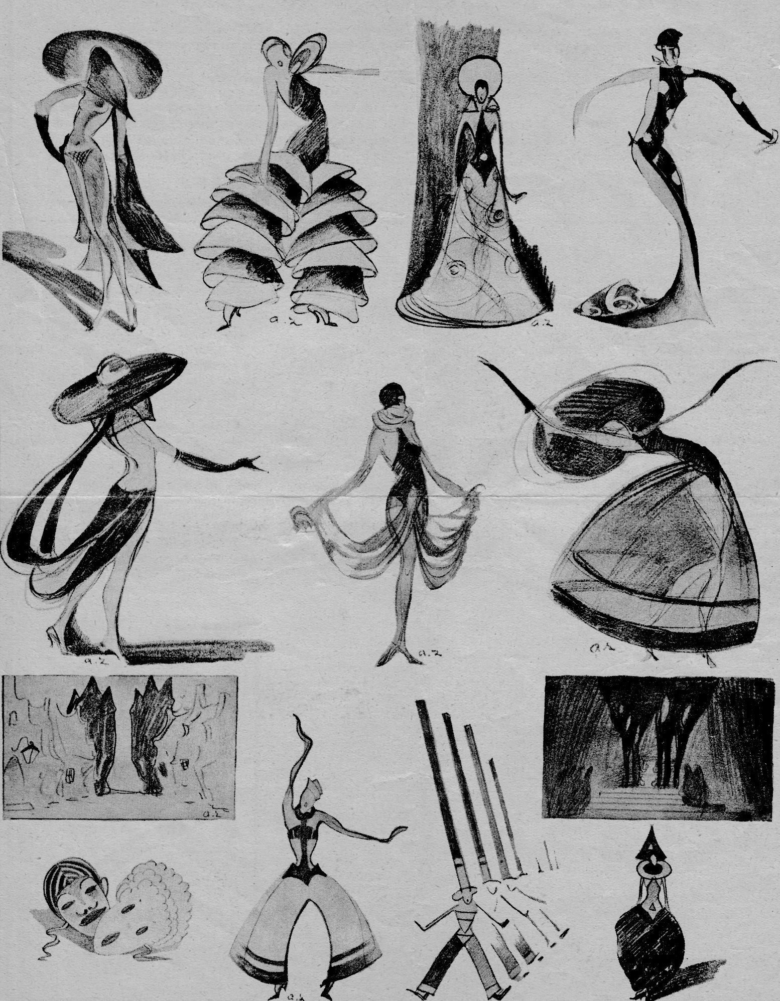 Black/white copies of costume design sketches by the Russian/Norwegian artist and scenographer Alexey Zaitzow